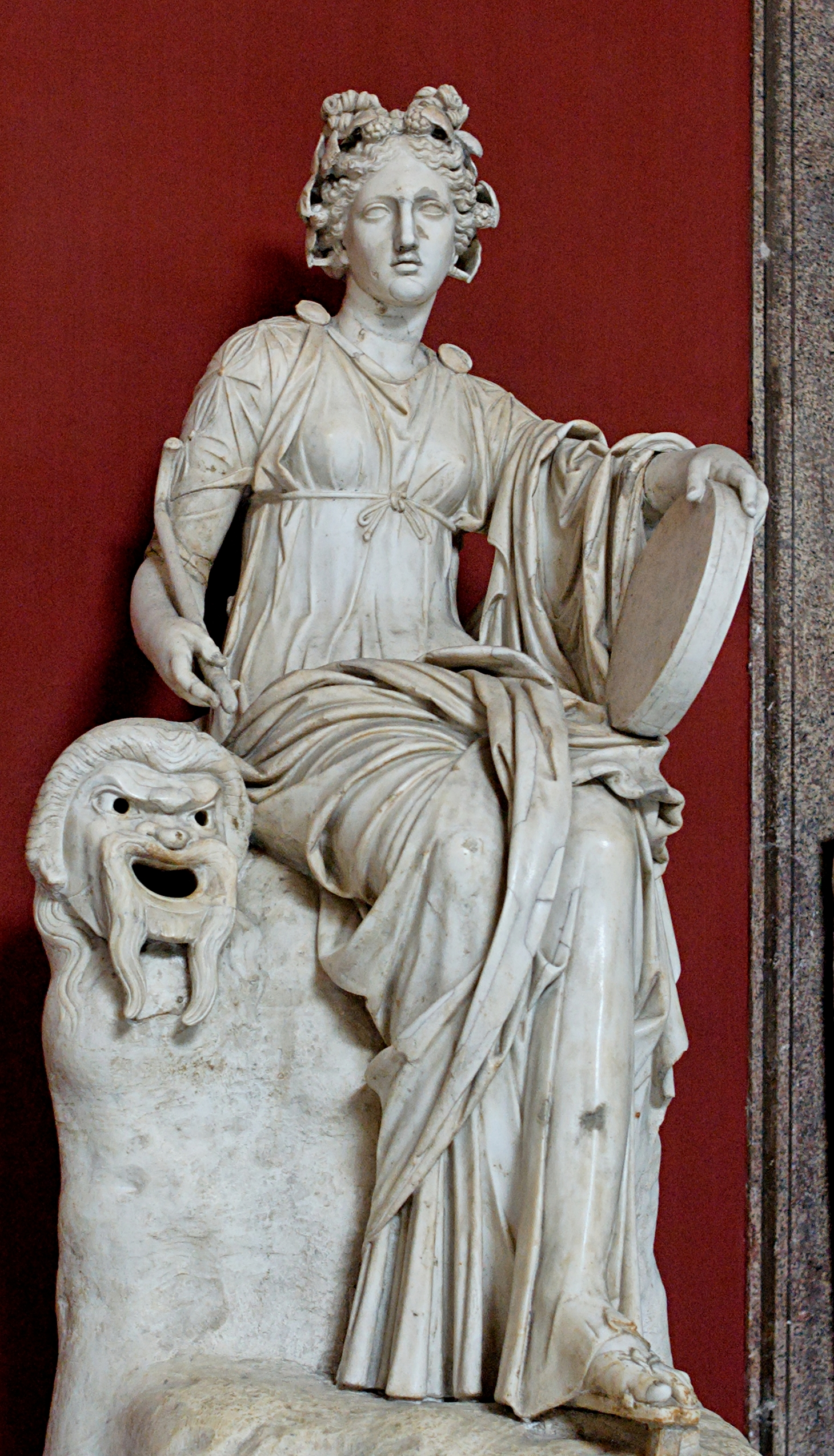 Thalia, Muse of comedy. Marble, Roman artwork from the 2nd century CE.